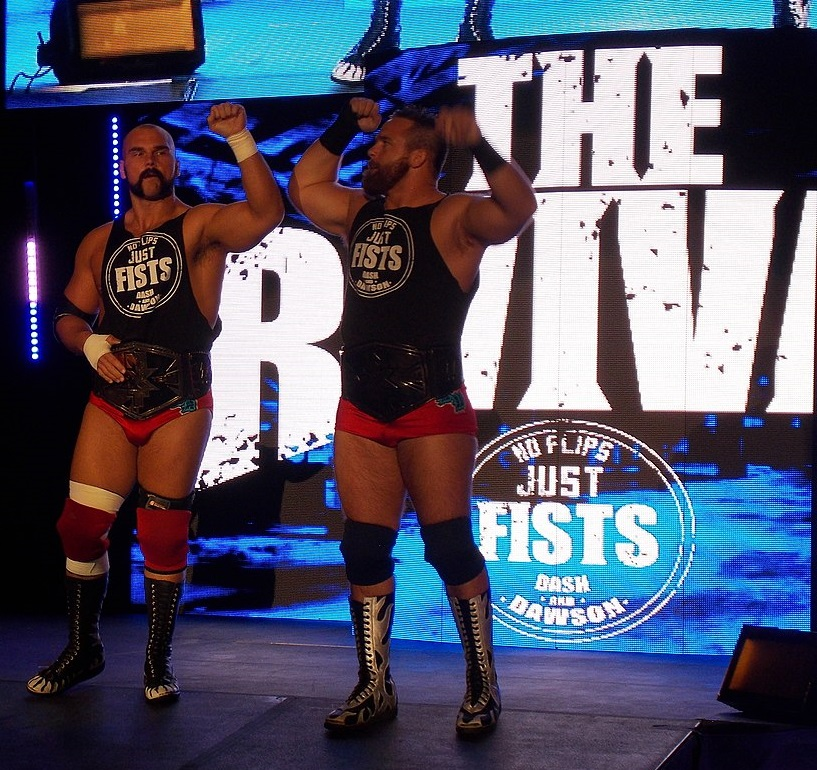 The Revival, Dash Wilder and Scott Dawson, at an NXT Live Event in Omaha, Nebraska, USA on Saturday, September 17, 2016